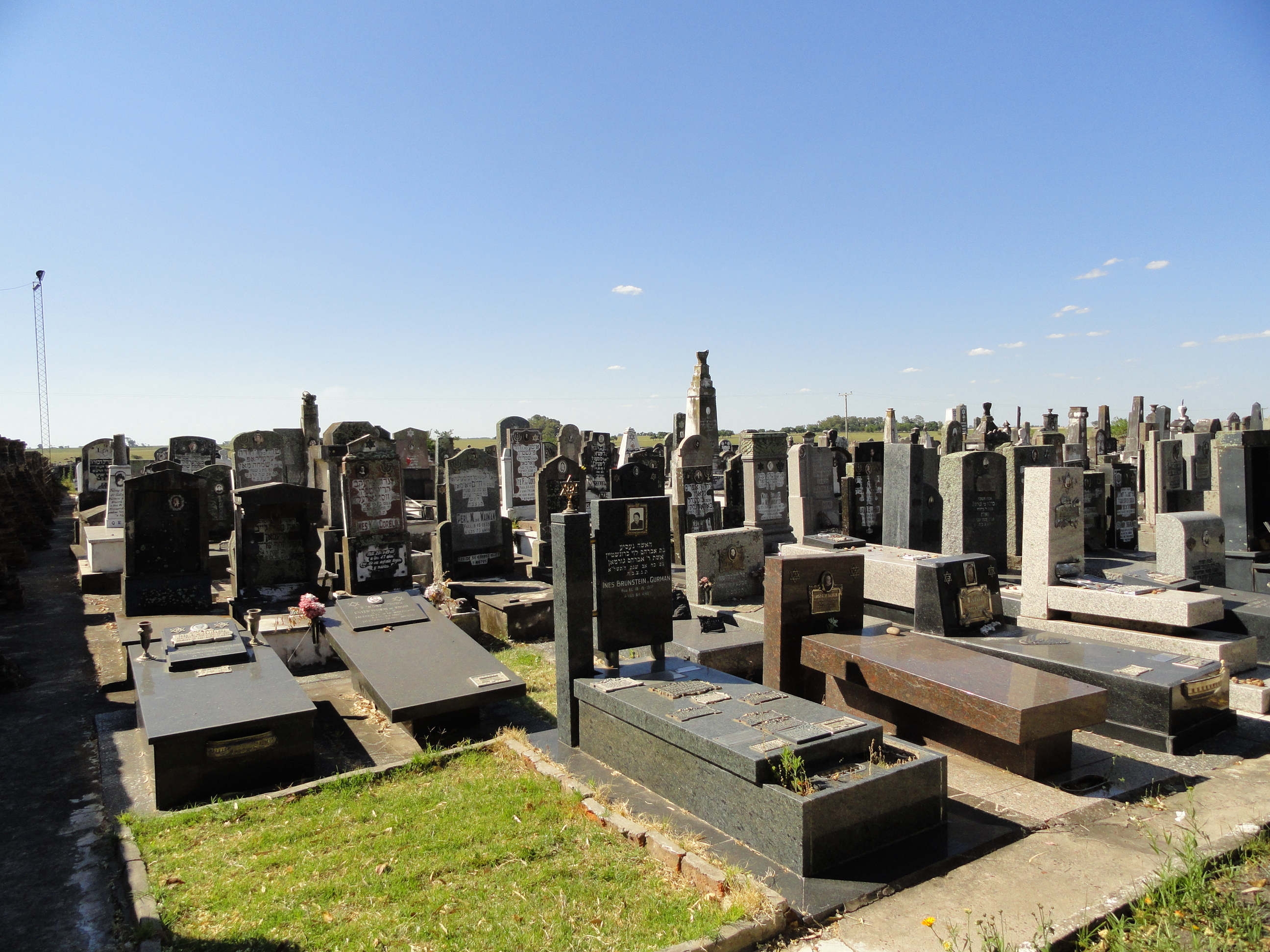 Jewish cemetery of Colonia 1; Basavilbaso; Argentina. The men, the women and the children are not buried in the same area. Here the women area.